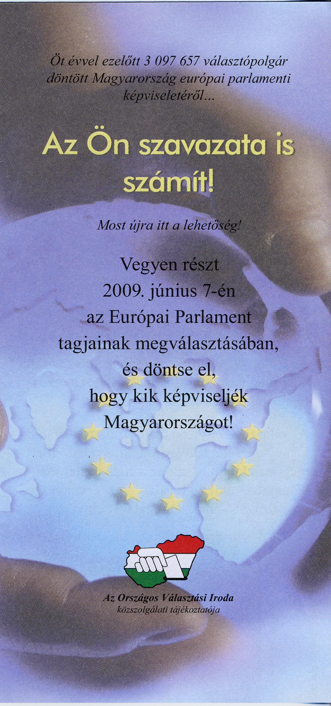 A Hungarian voter invitation card for the European Parliament election of 2009. Frontpage. This card has been delievered alongside with a proposal coupon (in Hungarian: "kopogtatócédula" or "ajánlószelvény") and a voter registration card for registered voters via letter. Translation: Five years ago 3,097,657 voters decided about Hungary's EP delegation. Your vote counts too! Now here is your chance! Participate in the upcoming EP election on 7th June 2009 and decide about who will represent Hungary! - prospectus by the National Election Office. Color, 300 dpi. Hardware: Epson Perfection v10.